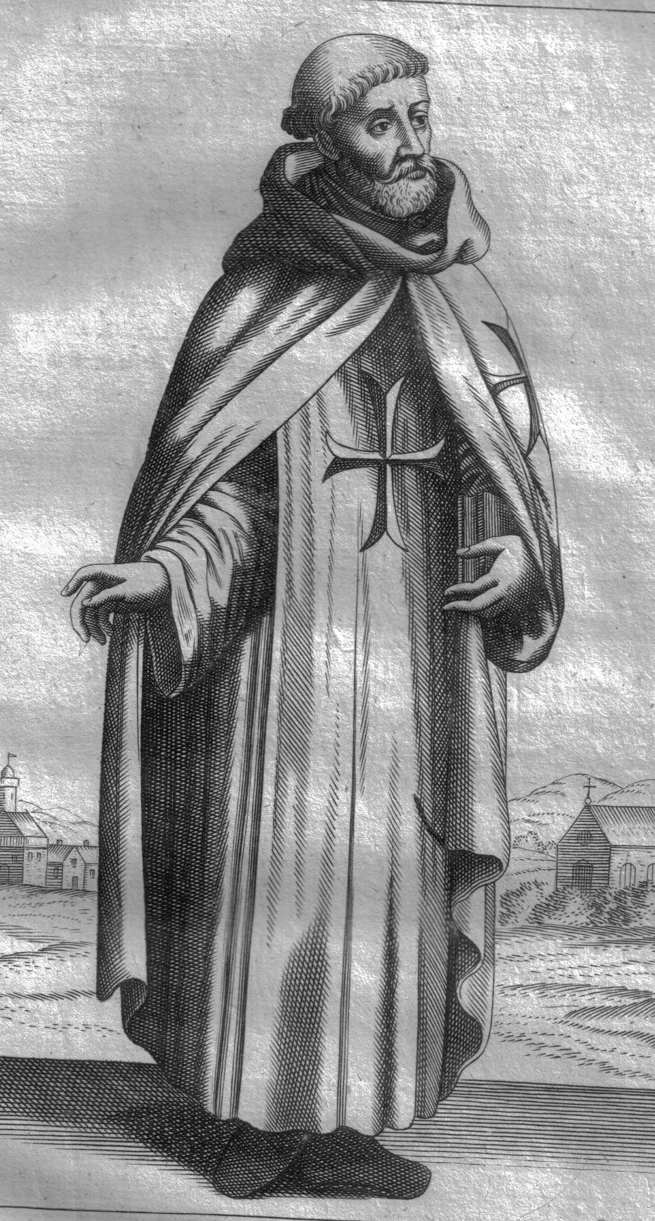 A monk of the Trinitarian Order